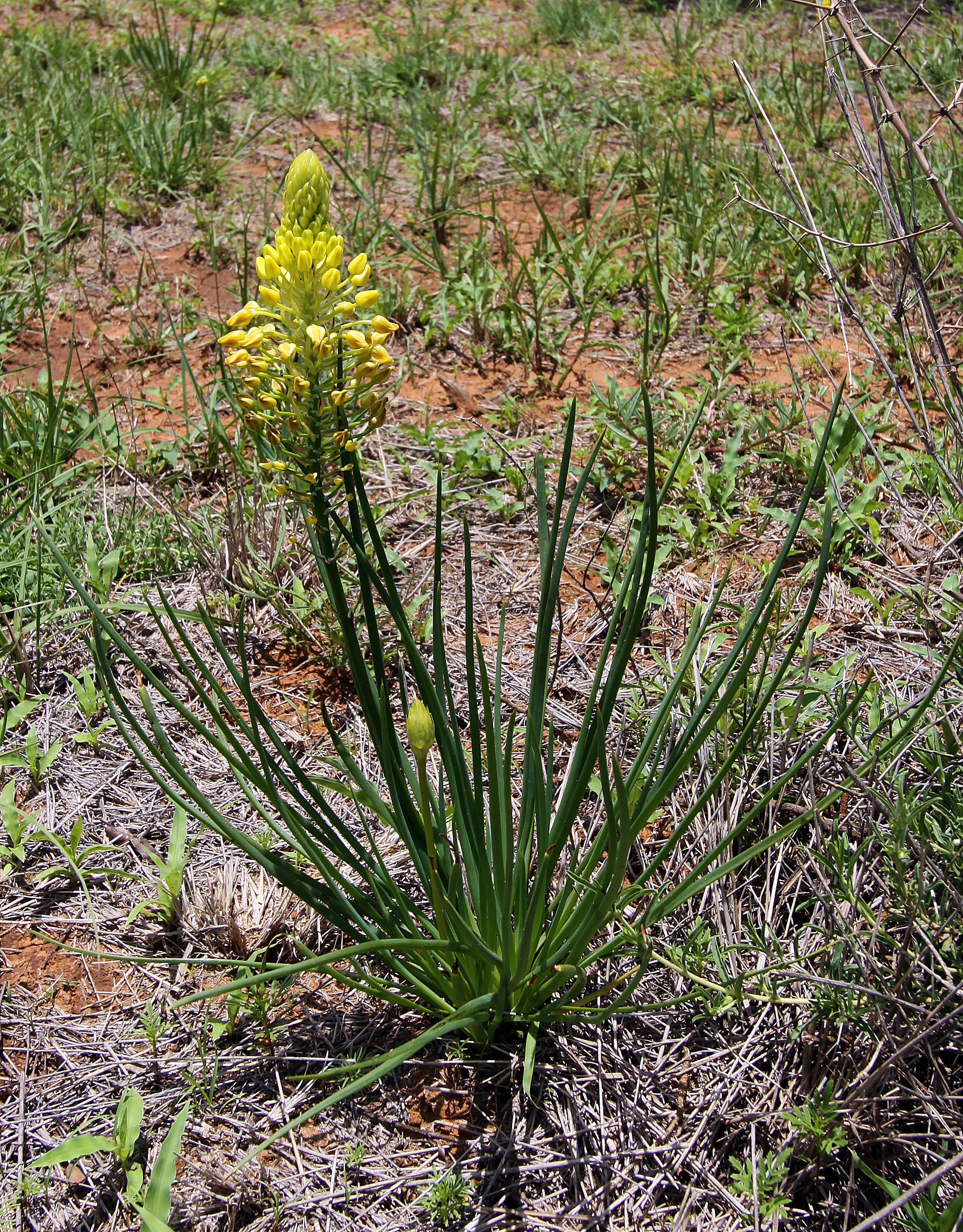 Bulbine abyssinica, plant in flower; Wolmaransstad, North West, South Africa